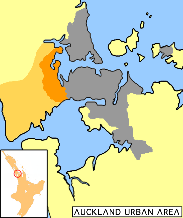 Uploaded from the English Wikipedia, uploaded there by user:Grutness Map of Auckland urban area, Waitakere City highlighted (dark orange=populated; light orange=rural areas)